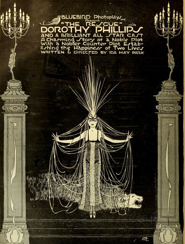 Advertisement in Moving Picture World, Jul 1917 for the film The Rescue (1917).